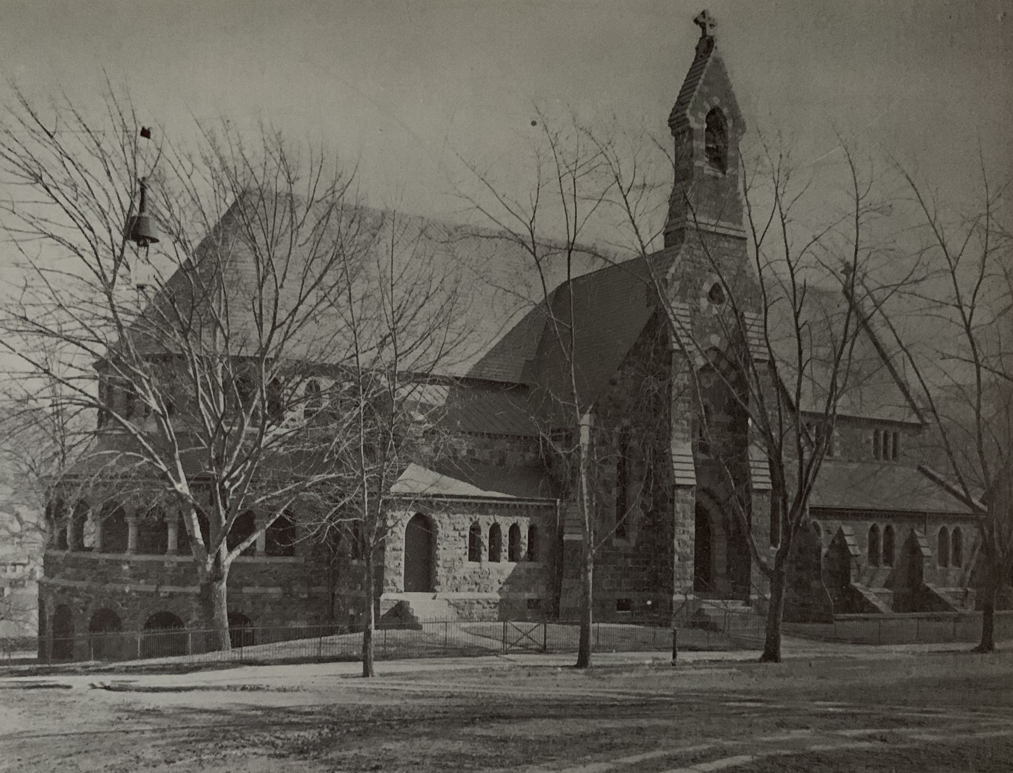 Photograph of the recently enlarged (Episcopal) Church of the Nativity, as designed by E. M. Burns and completed in 1887.